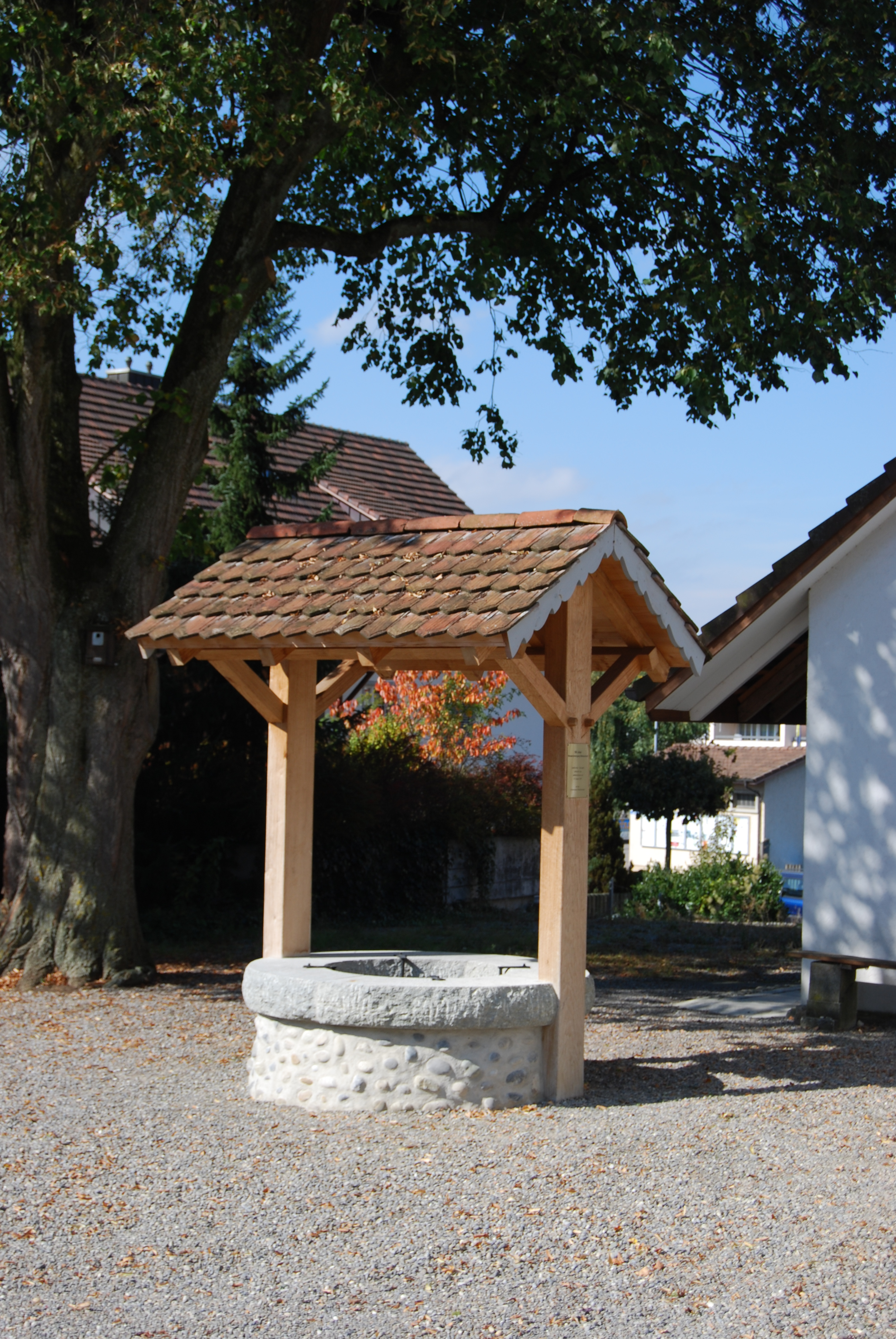 Fountain at Waltenschwil, canton of Aargau, SwitzerlandEsperanto: Puto en Waltenschwil, Kantono Argovio, Svislando